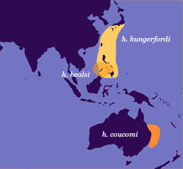 Map Erronea hungerfordi